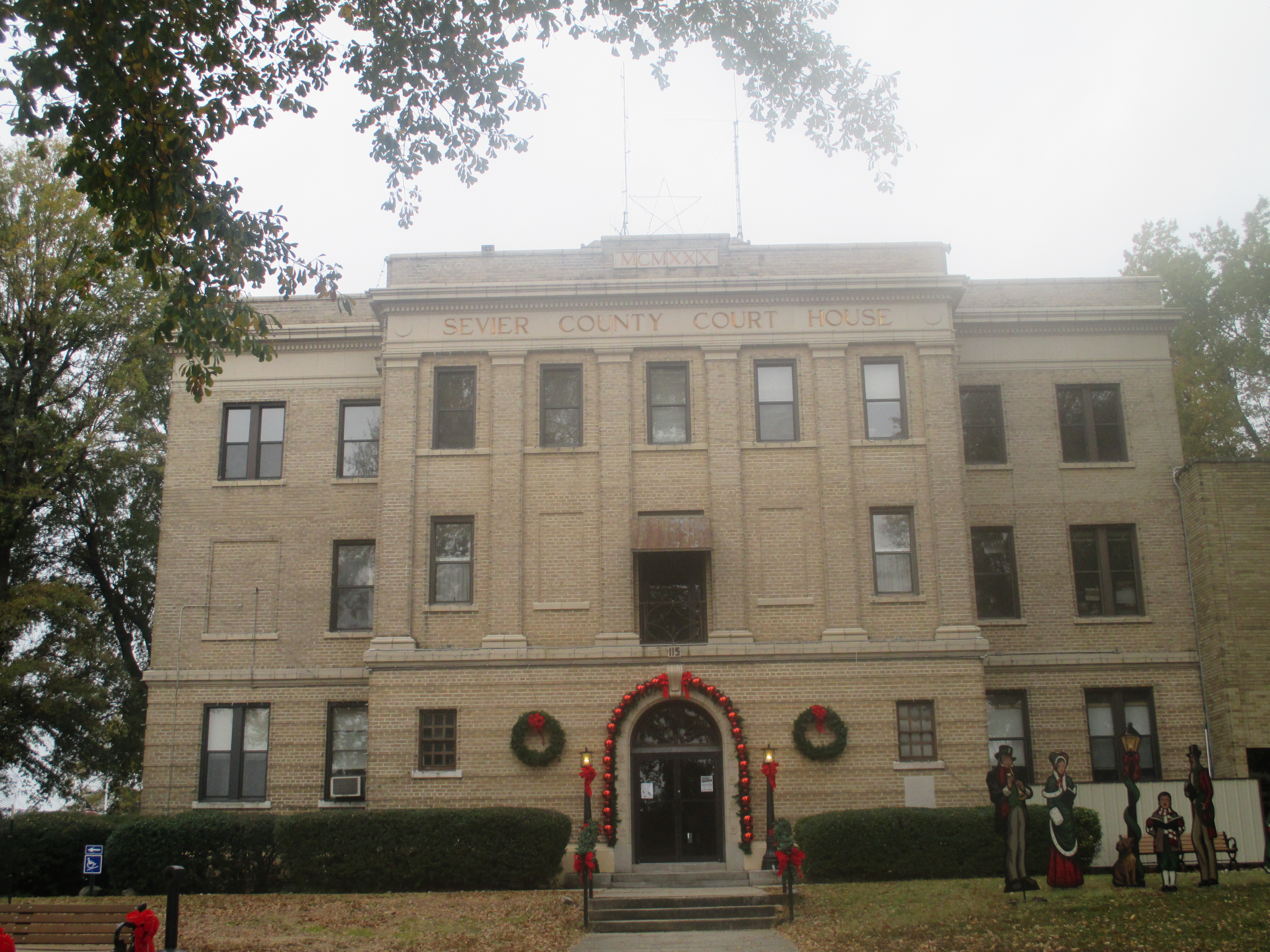 I took photo of Sevier County Courthouse in DeQueen, AR, with Canon camera.